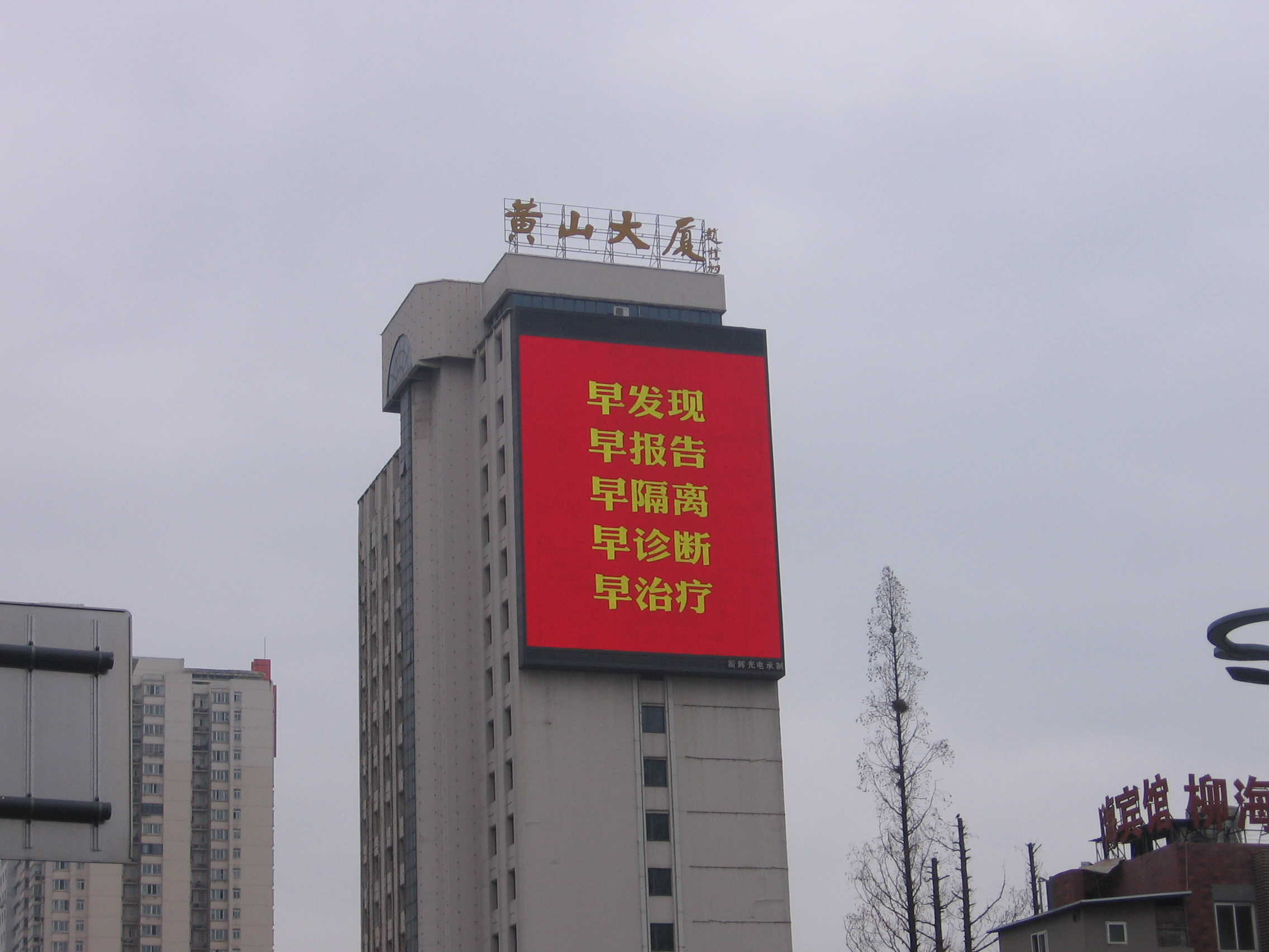 A screen display showing "early discovery, early report, early quarantine, early diagnosis, early treatment" during Wuhan coronavirus outbreak in Hefei, Anhui, China.